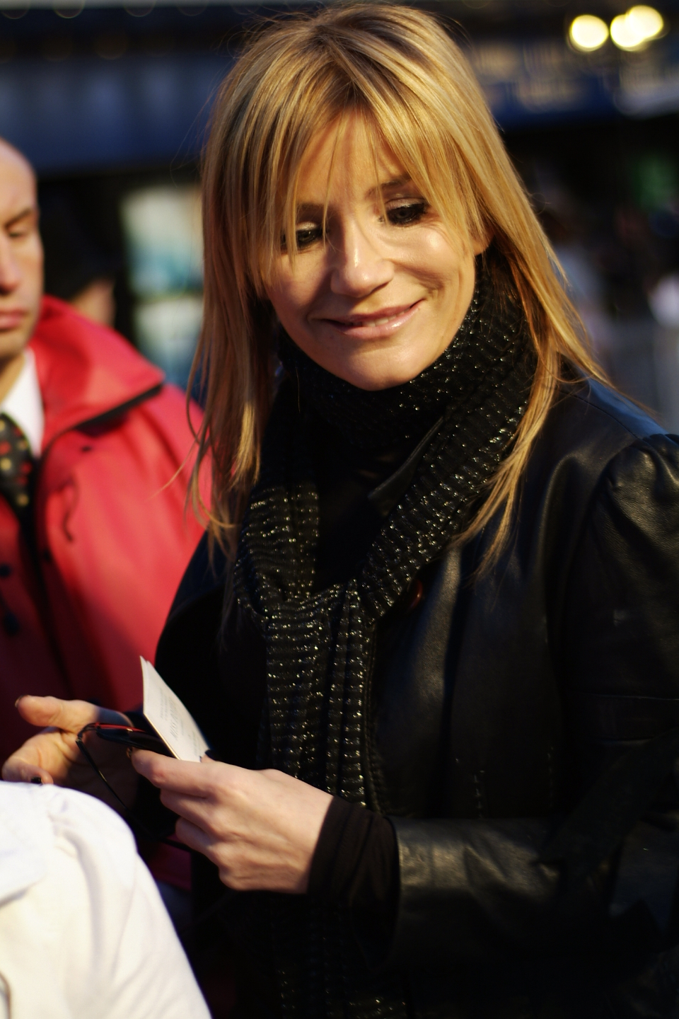 Michelle Collins, ex-Eastenders